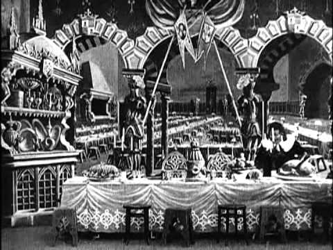 Screenshot from movie "Barbe-bleue". France, 1901 year.